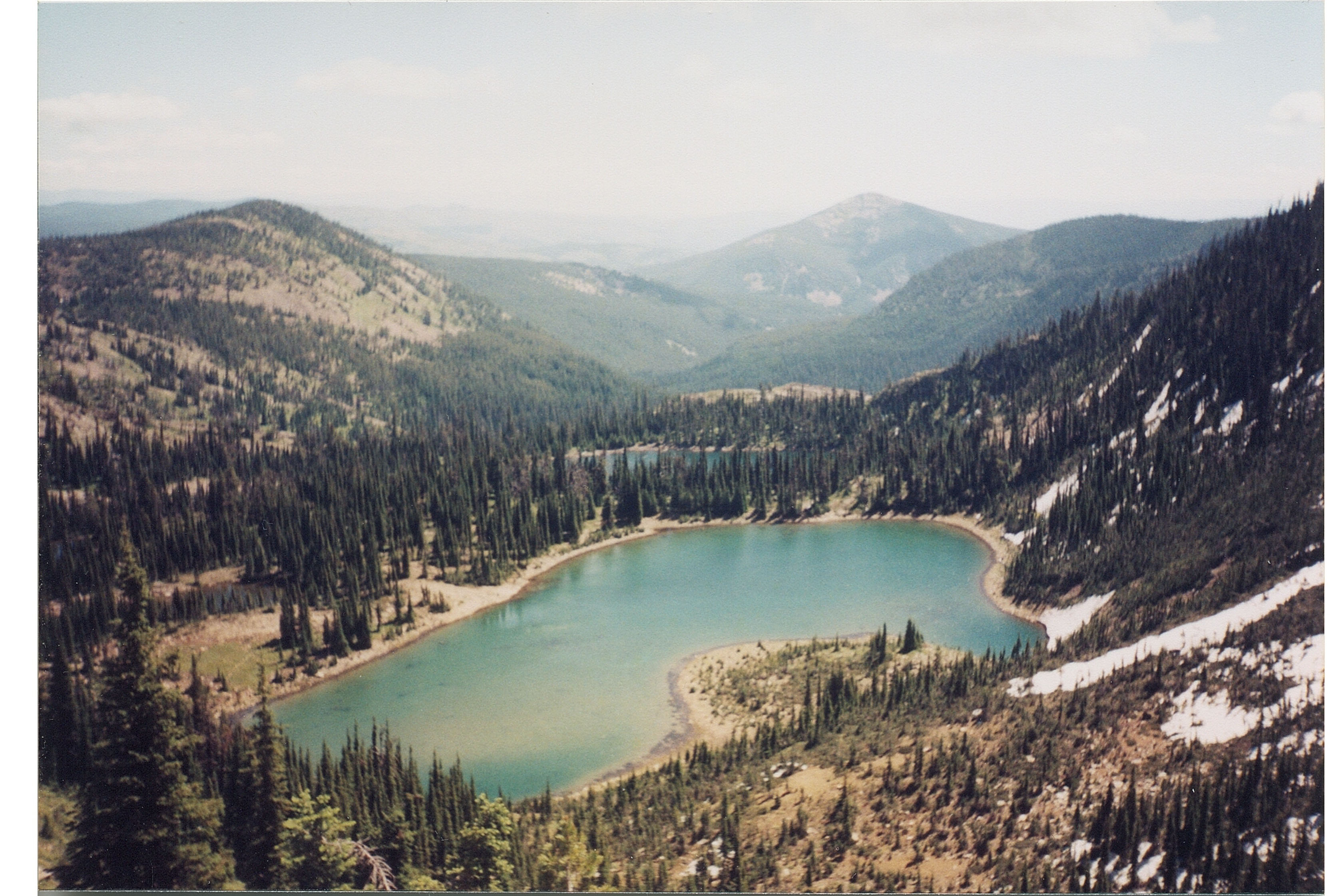 Lake just below Stuart Peak, Rattlesnake Mountains, Montana. Photo taken summer 1999 by John David Stutts.